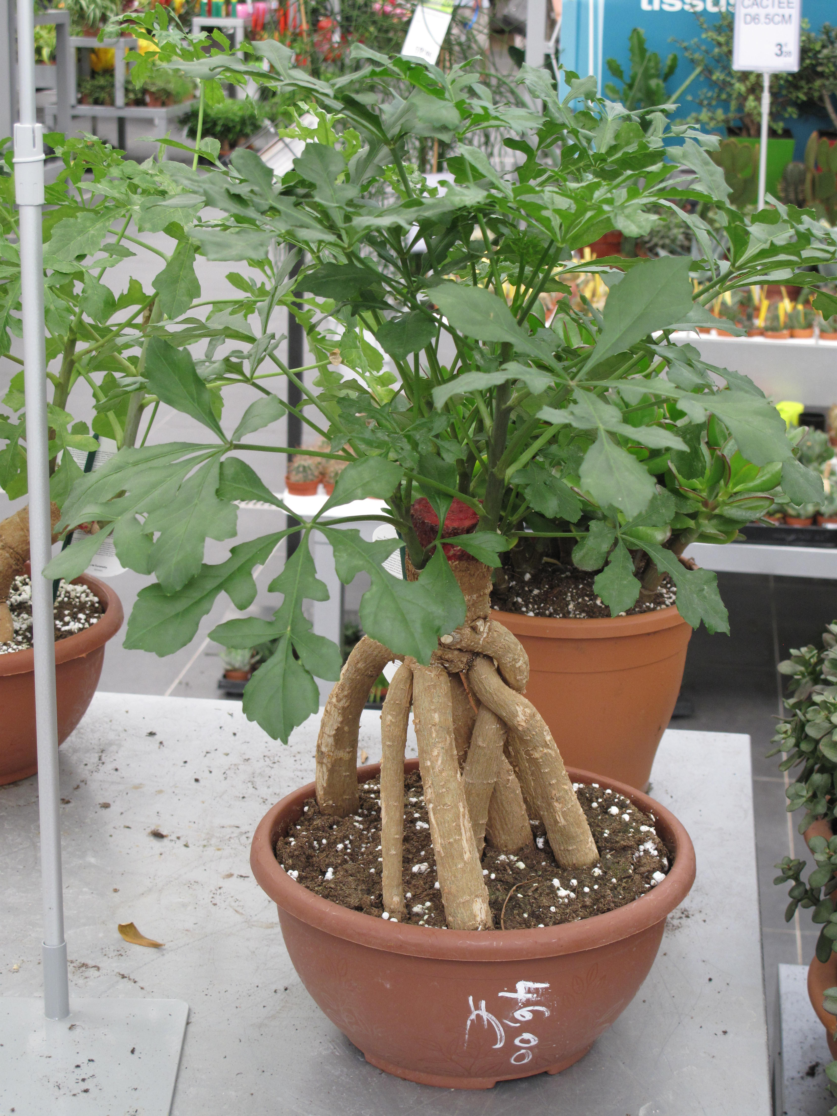 Cussonia spicata (with sometimes nickname of elephant toothbrush) in a garden centre. Identified by its commercial botanic label.